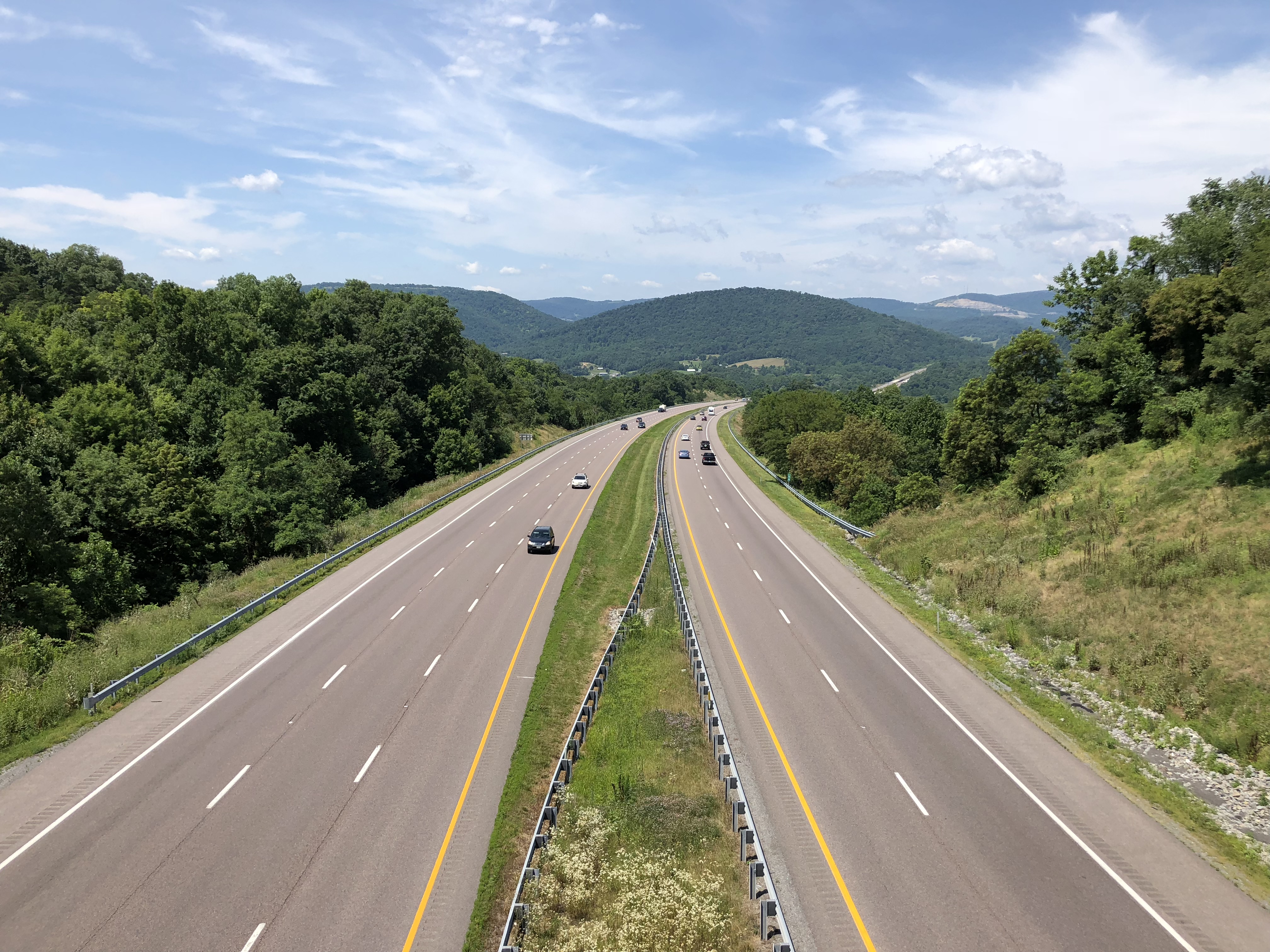 View west along Interstate 68 and U.S. Route 40 (National Freeway) from the overpass for Maryland State Route 948 (Mountain Road Northeast) in Pratt, Allegany County, Maryland